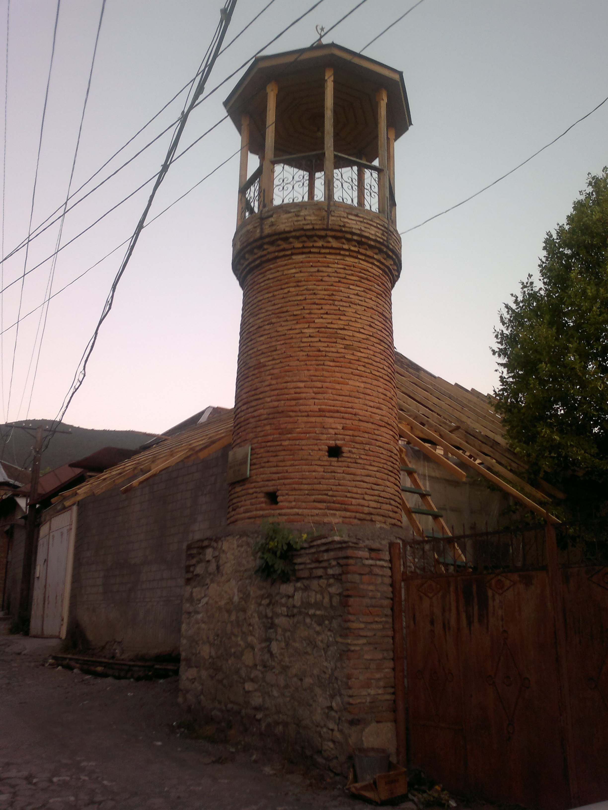 Gedek Minaret in Shaki